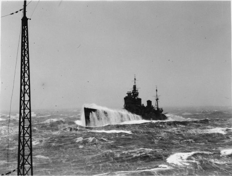 The Royal Navy during the Second World War HMS DUKE OF YORK battling against heavy seas and a north easterly gale of 50 to 60 knots, while maintaining her position in the battle squadron during an Arctic convoy to Russia (photographed from the aircraft carrier HMS VICTORIOUS).